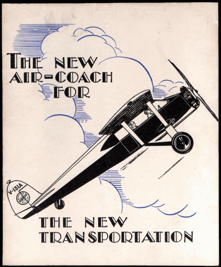 Brochure for Wikipedia:Verville Air Coach product.